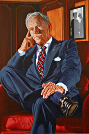 James J. Howard, US Representative from New Jersey